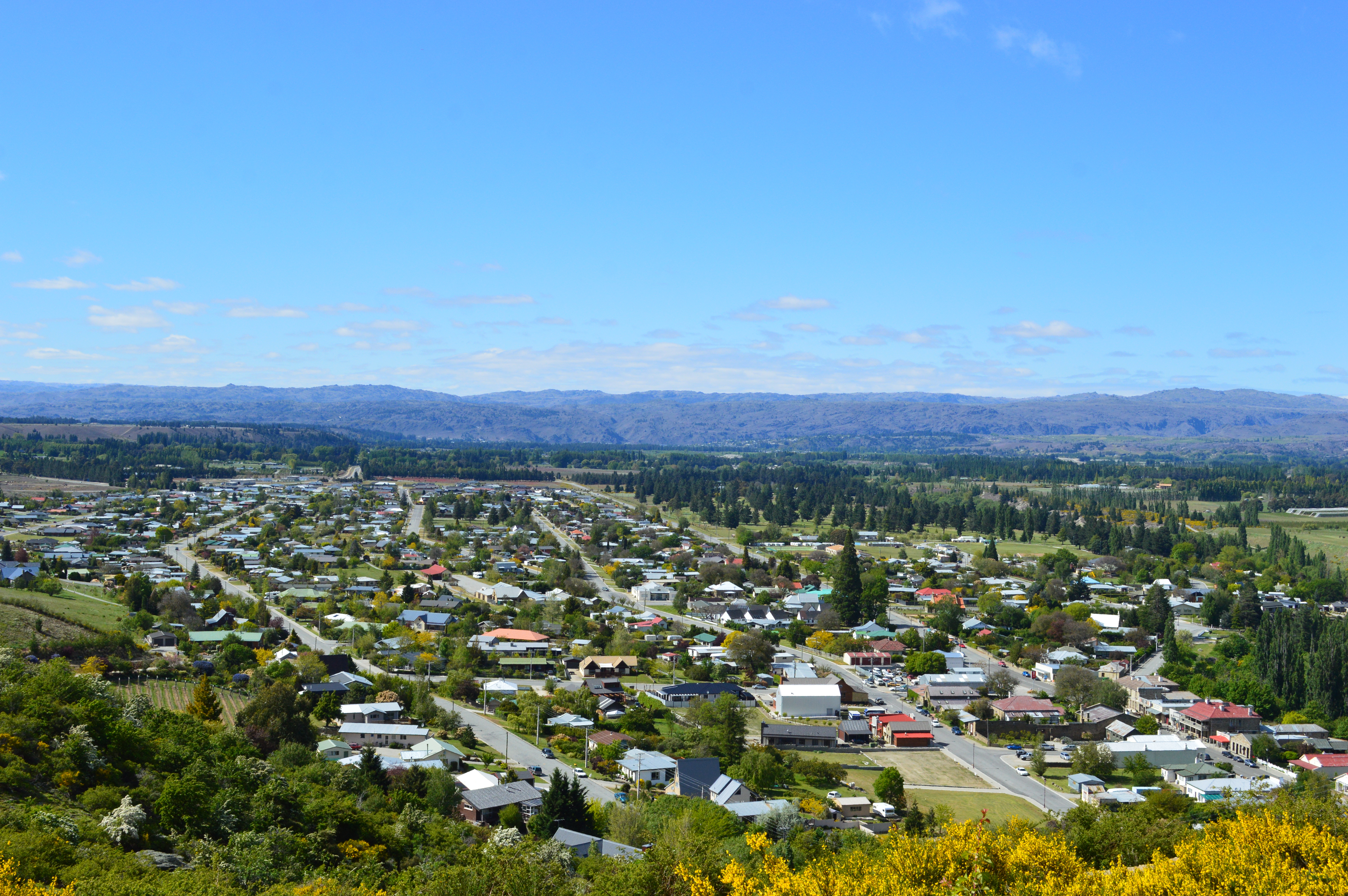 Clyde, New Zealand seen from the town lookout